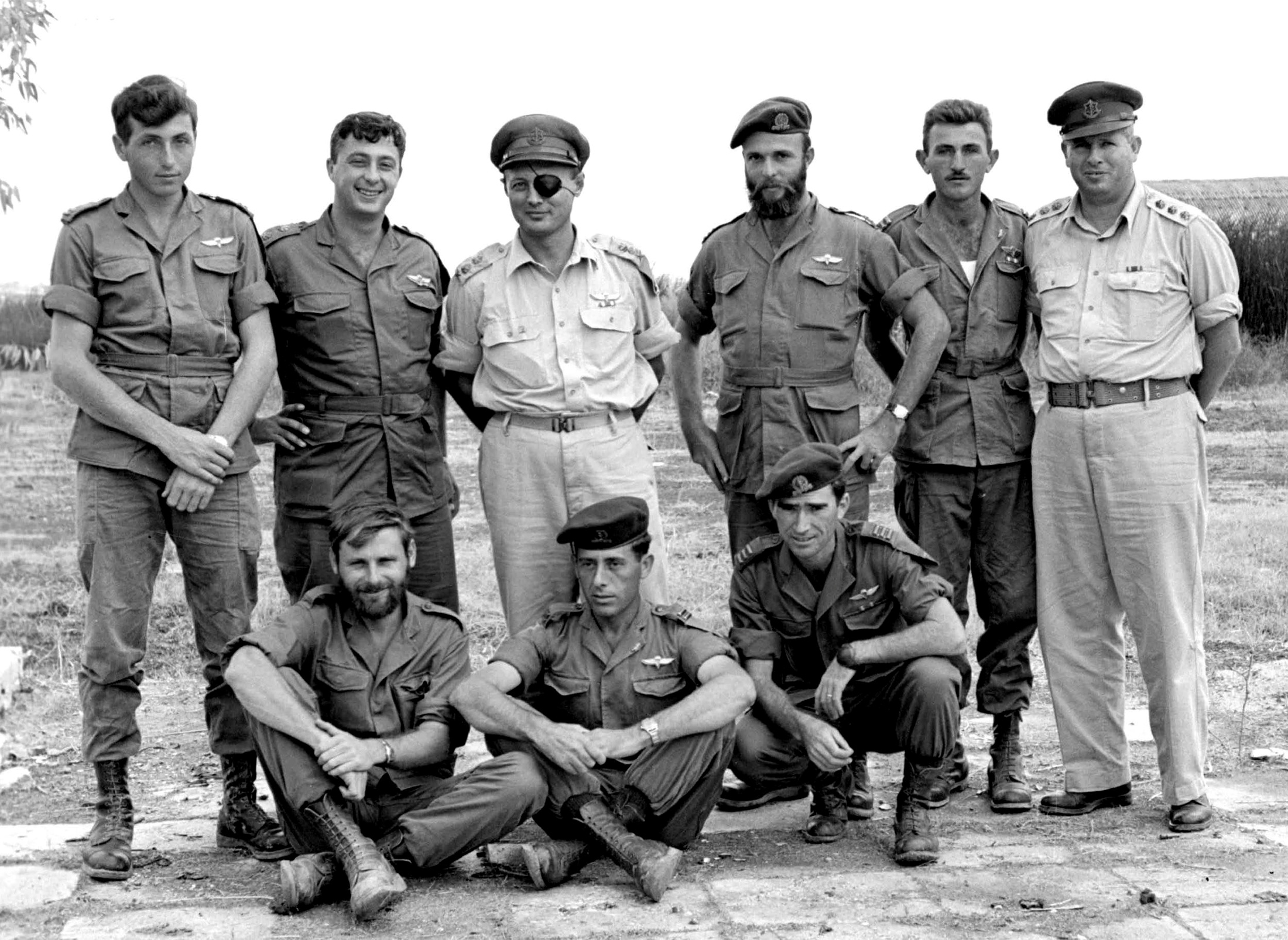 Different israeli officers of the parachutist 890e battalion in 1955 with Moshe Dayan - Chief of Staff. Lieutnant Meir Har-Zion - Lieutnant colonel Arik Sharon - Lieutnant General Moshe Dayan (Chief of Staff) Captain Dani Matt - Lieutnant Moshe Efron - Major General Asaf Simchoni - Captain Aharon Davidi Lieutnant Ya'akov Ya'akov - Captain Raful Eitan. CoS Moshe Dayan with members of 890th Paratroop Battalion after Operation Egged, November 1955. Standing l to r: Lt. Meir Har-Zion, Maj. 'Arik' Sharon, Lt.Gen Dayan, Capt. Dani Matt, Lt. Moshe Efron, Col. Asaf Simchoni; On ground, l to r: Capt. Aharon Davidi, Lt. Ya'akov Ya'akov, Capt. 'Raful' Eitan.